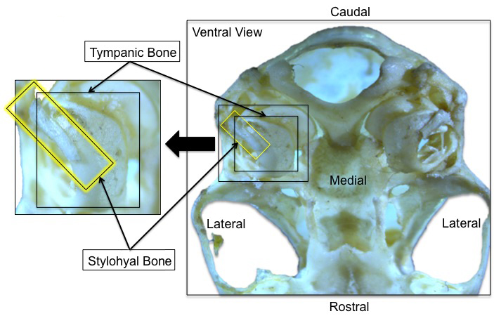 This image is a ventral view of a tadarida cyanocephala skull.